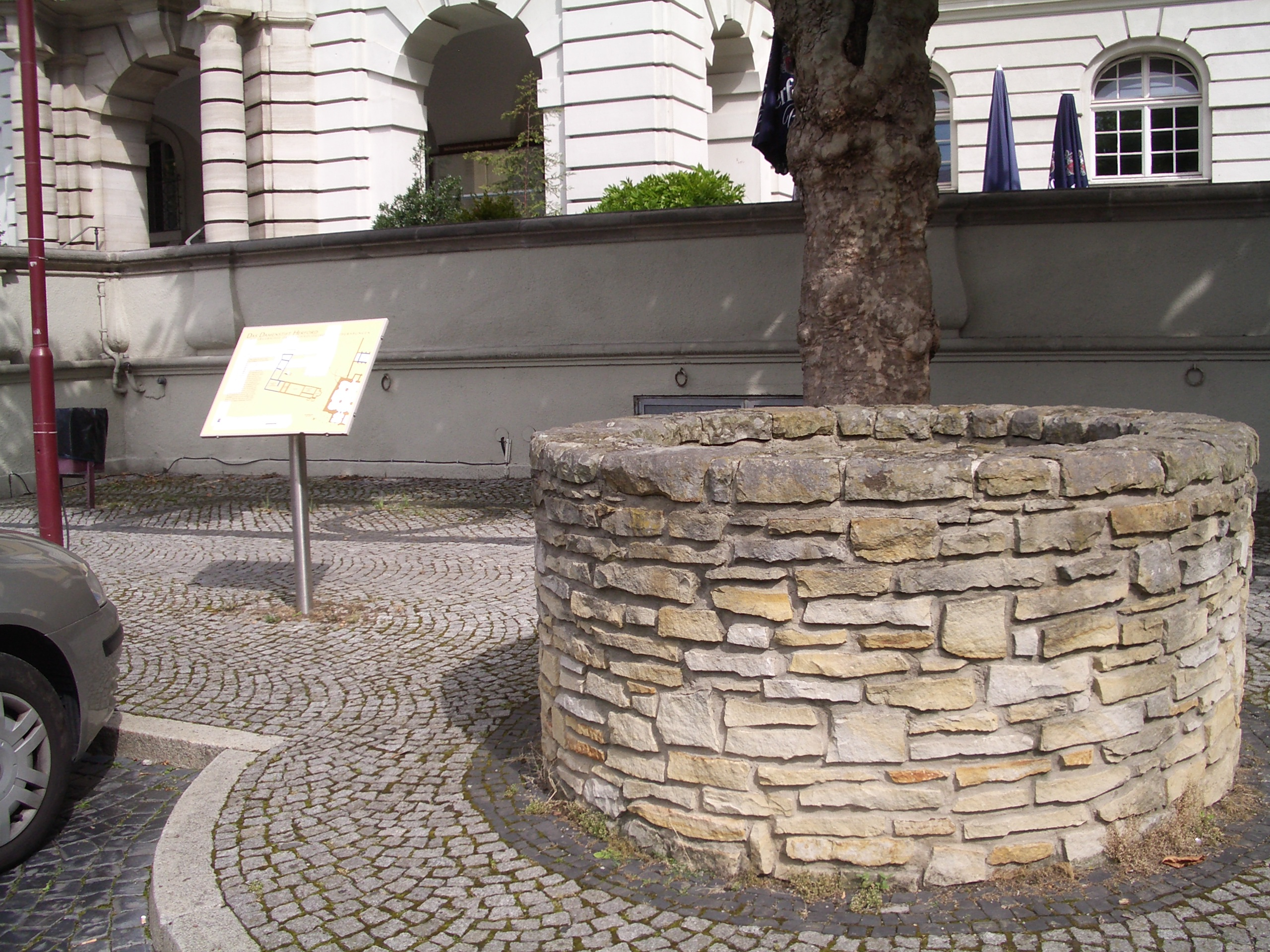 Old well near town hall in town of Herford, District of Herford, North Rhine-Westphalia, Germany.